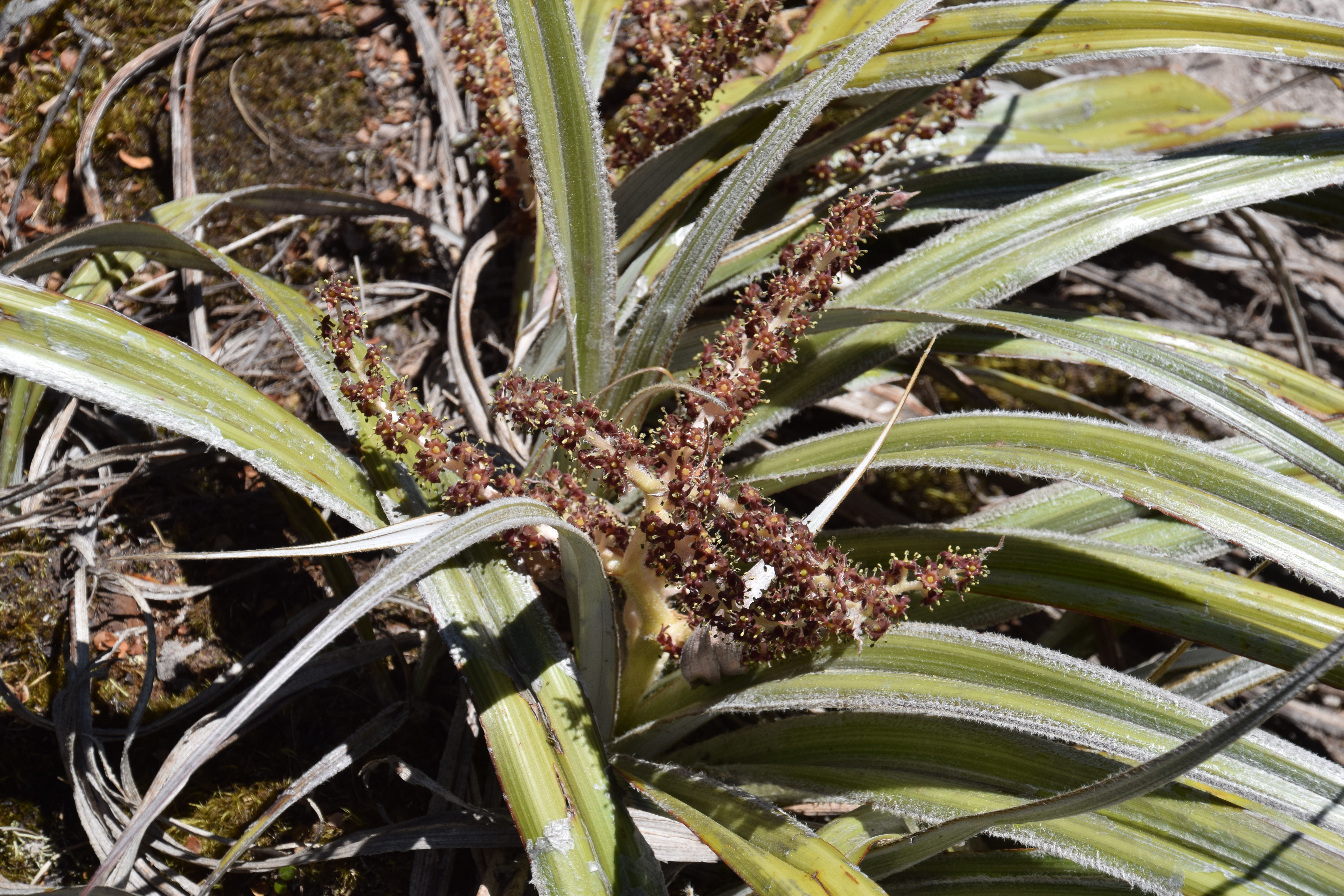 Astelia nivicola in Lewis Pass Scenic Reserve, South Island of New Zealand